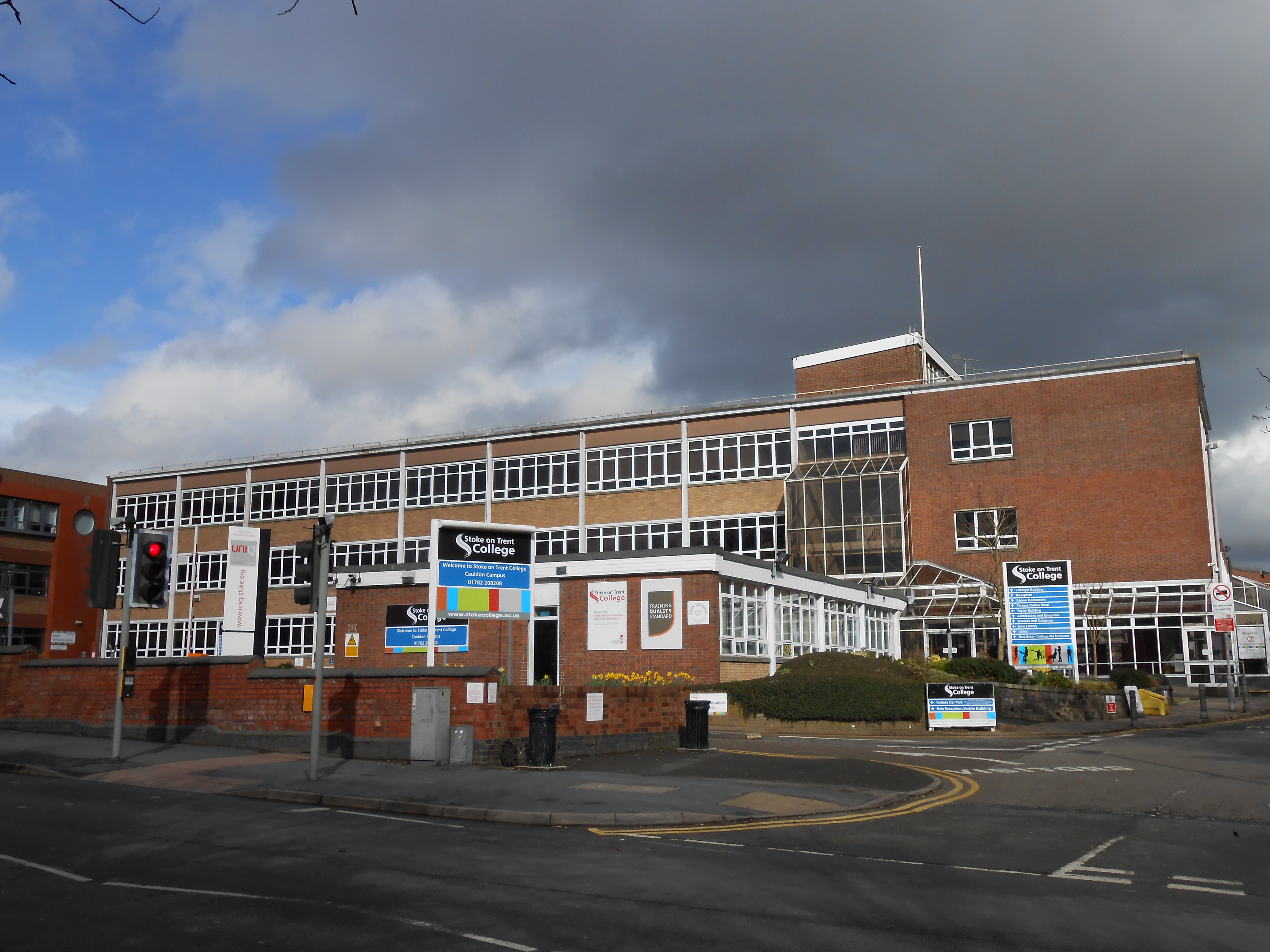 Stoke-on-Trent College, Staffordshire, England.